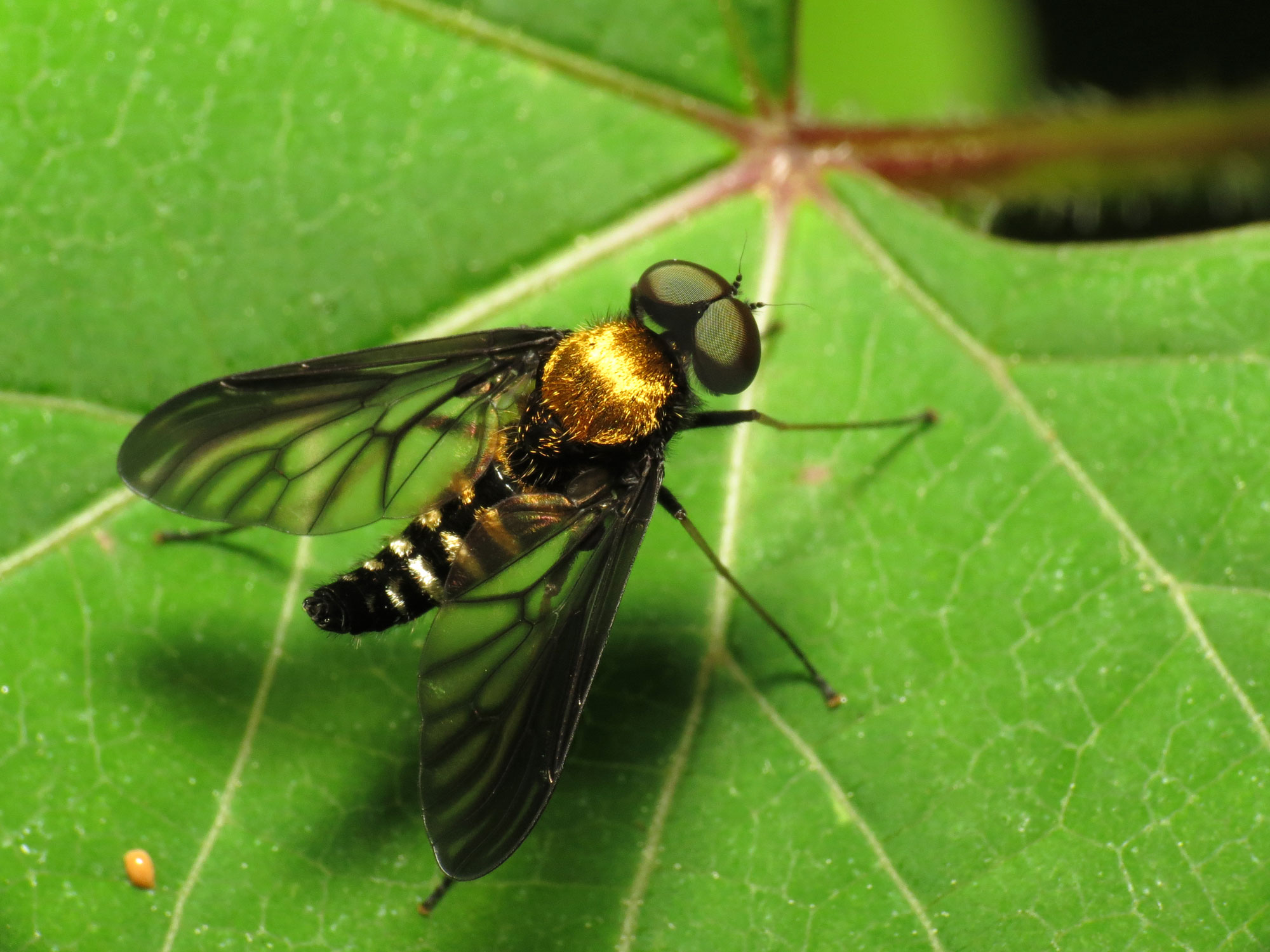 Chrysopilus thoracicus. Kenilworth Marsh. Washington, DC, USA. 19 May 2012.